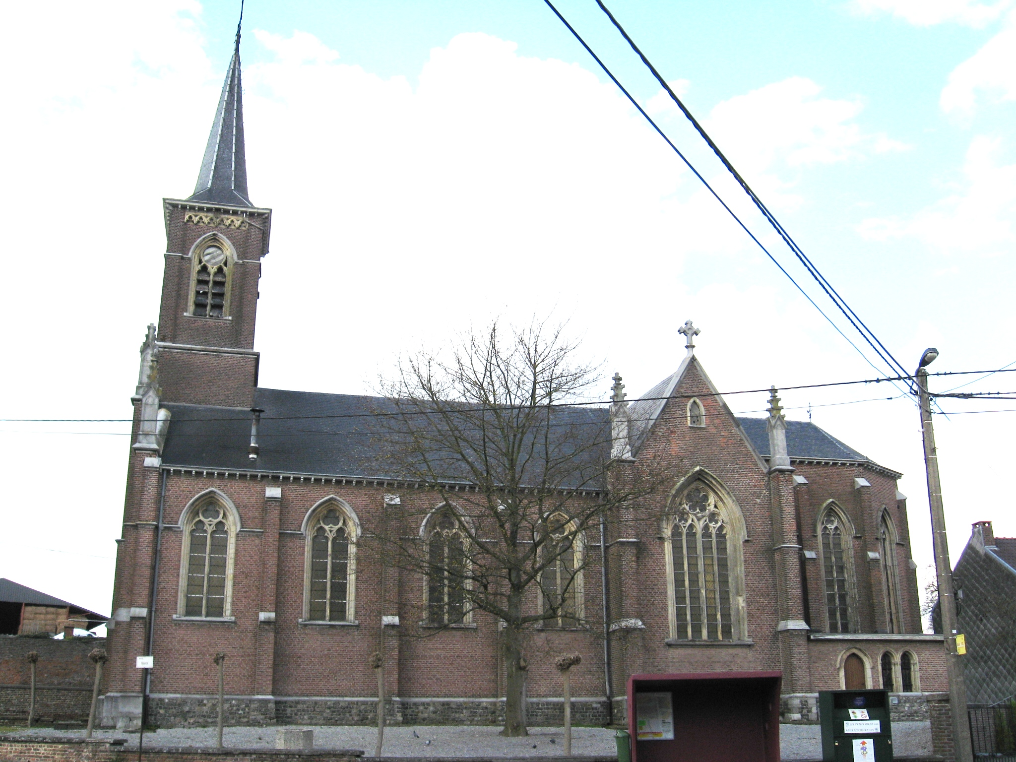 Church of Saint Servatius in Grandville, Oreye, Liège, Belgium